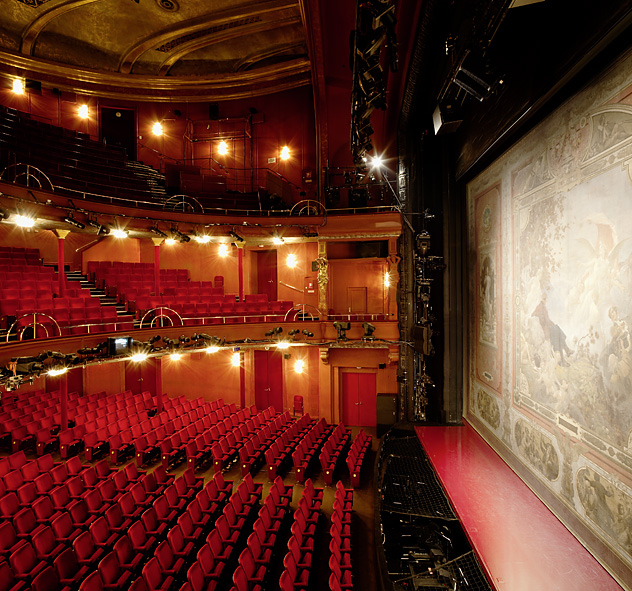 Innenansicht im Raimund Theater